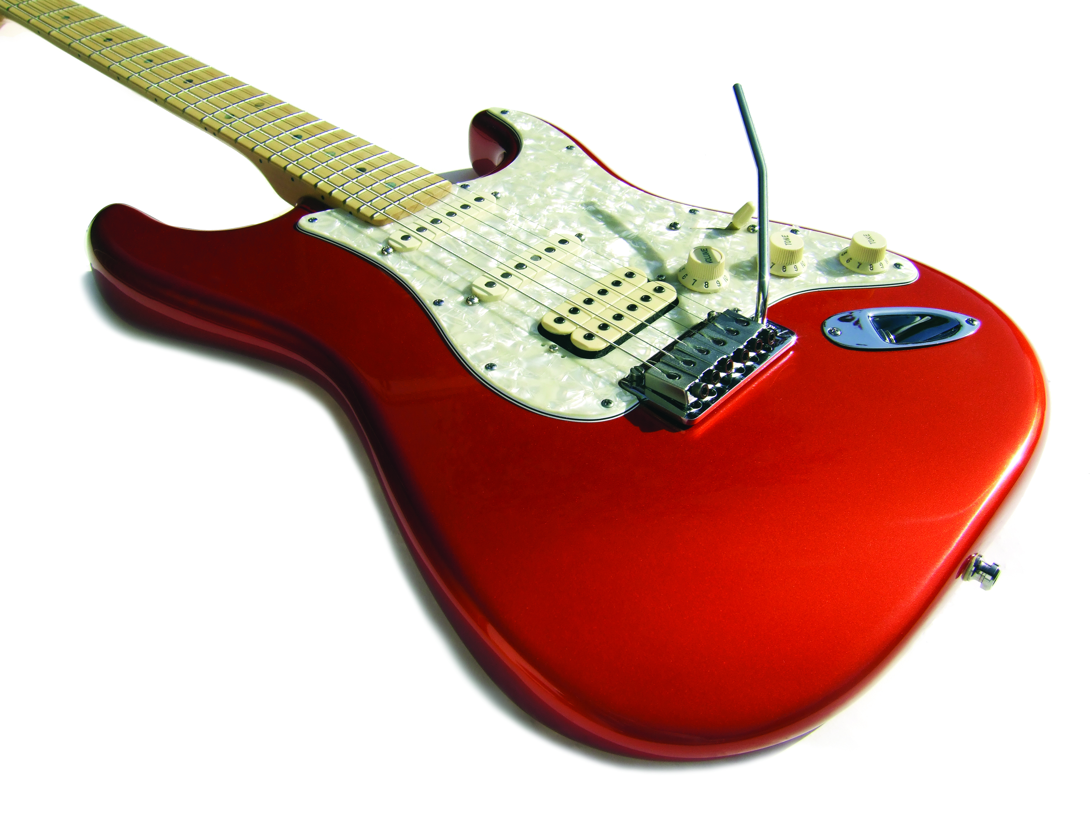 Candy Tangerine finish